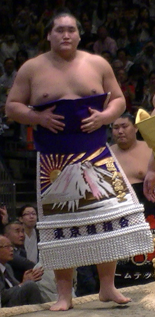 Terunofuji Haruo. Taken at Sept 2014 tournament